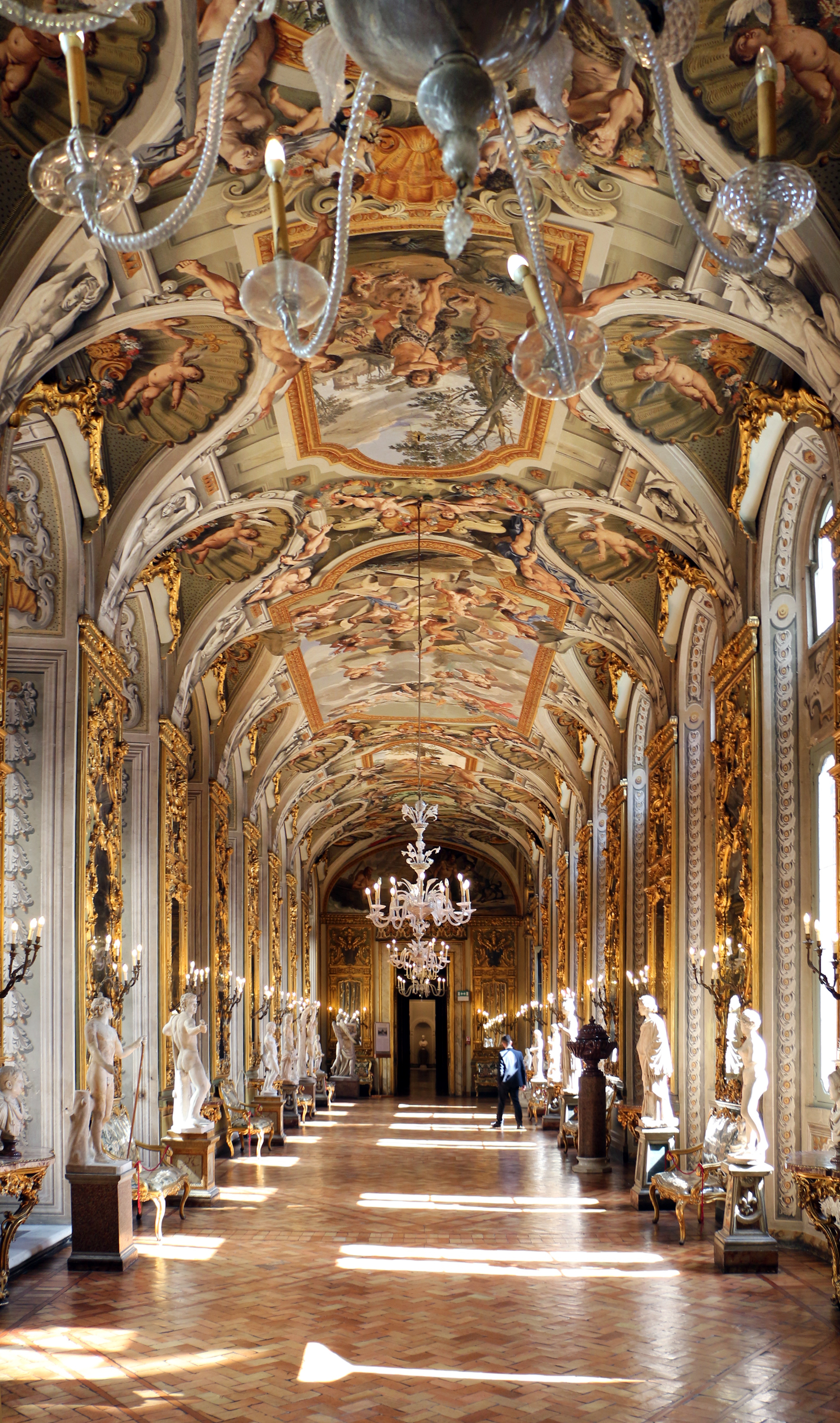 Palazzo Doria Pamphilj (Rome) - Interiors